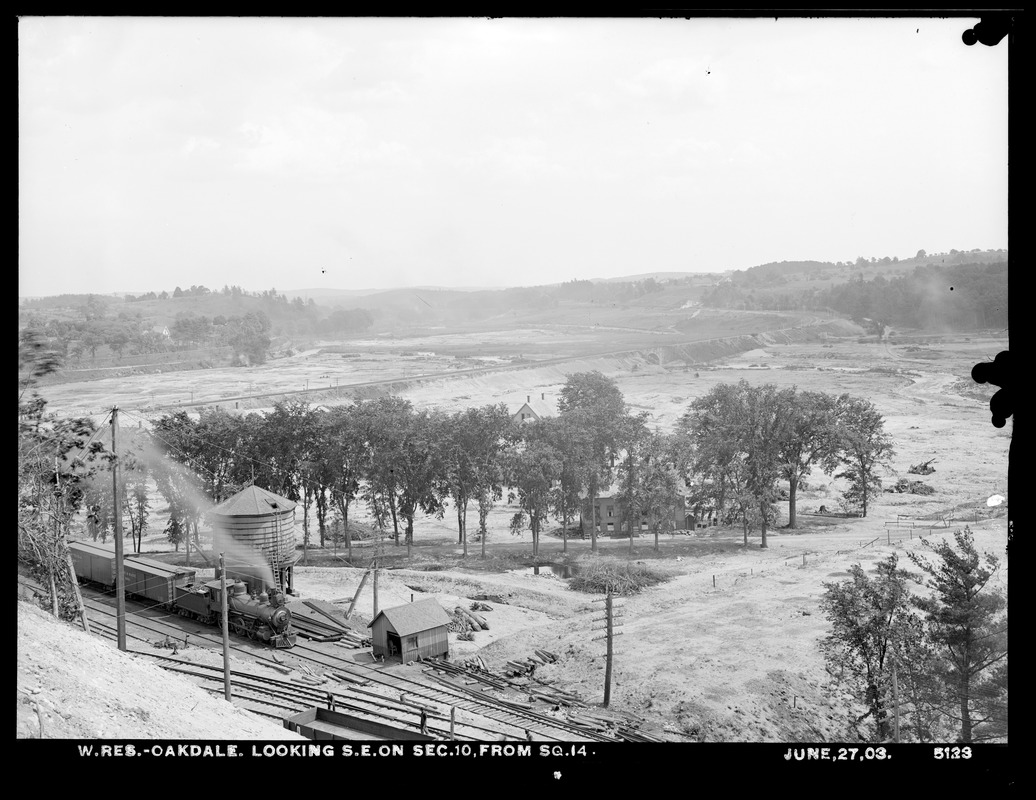 Wachusett Reservoir, Section 10, looking southeasterly from square 14, Oakdale, West Boylston, A, Jun. 27, 1903